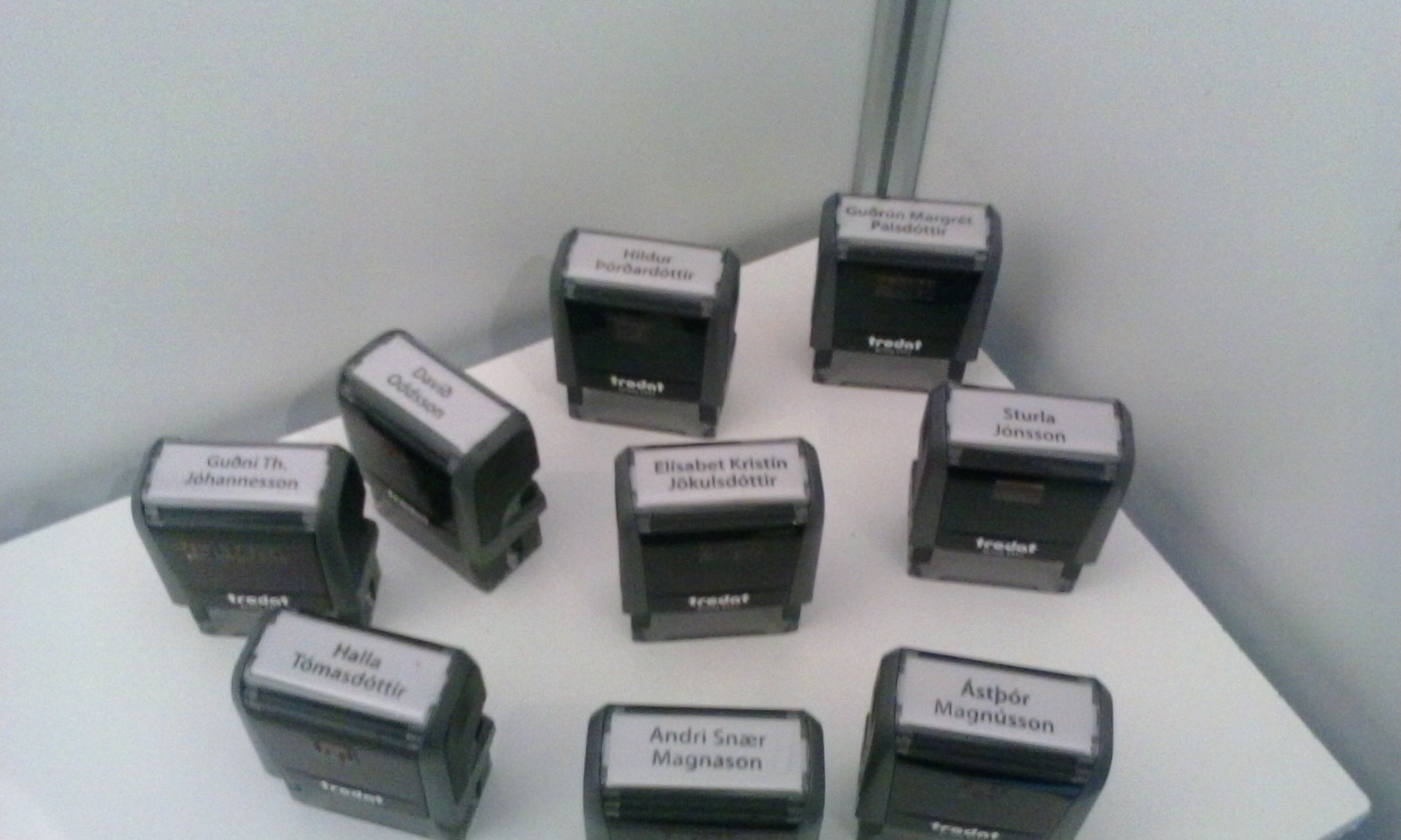 Absentee voting in the Icelandic presidential election, 2016 in Perlan Reykjavík. Stamps with all nine candidates.